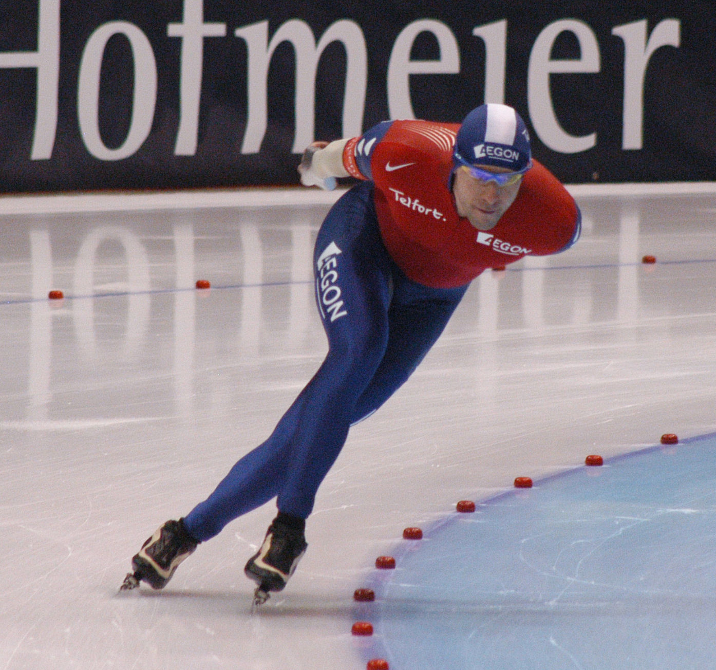 Tom Prinsen (NED) in action at a World Cup Speedskating in Heerenveen, the Netherlands.